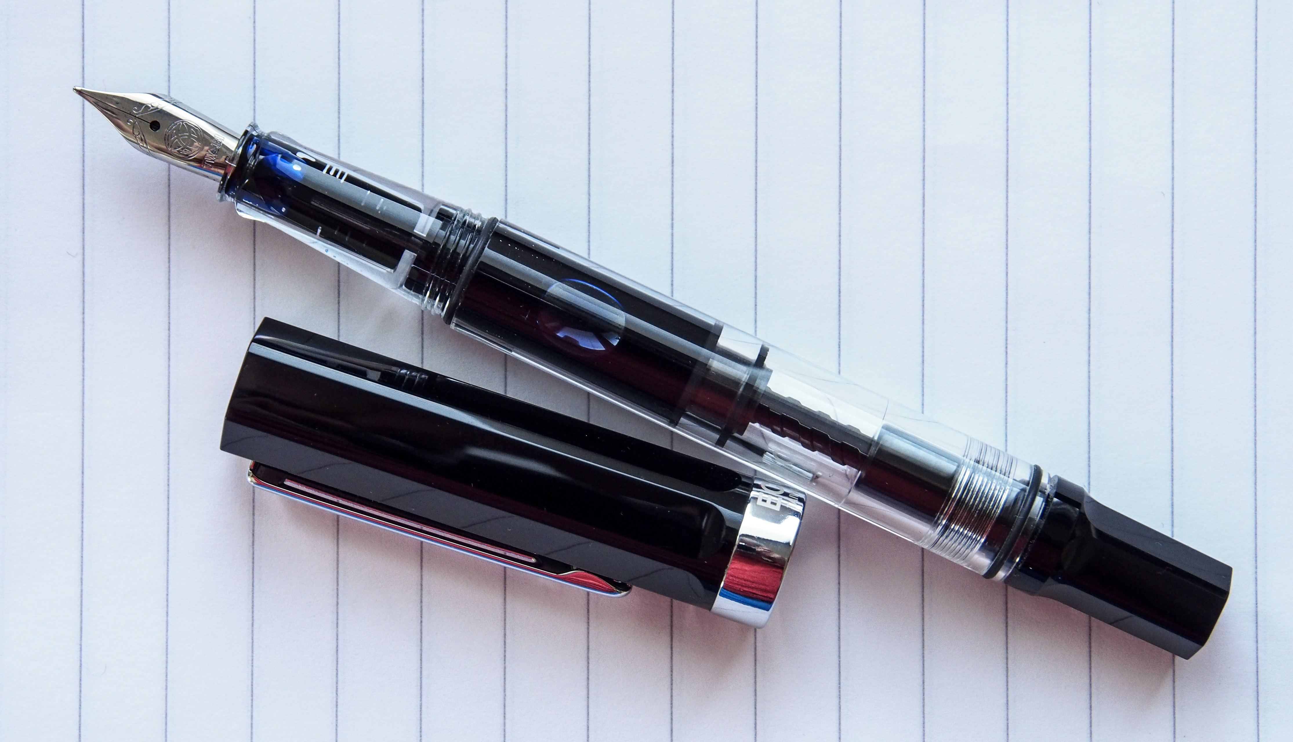 TWSBI Eco fountain pen